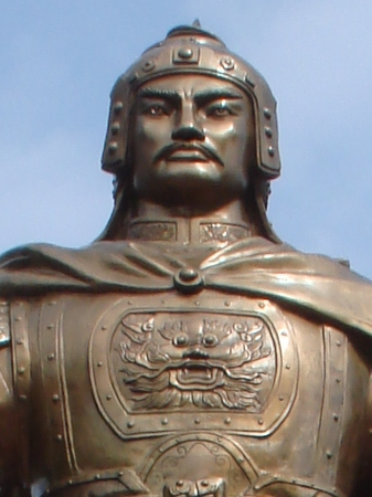 Emperor Quang Trung